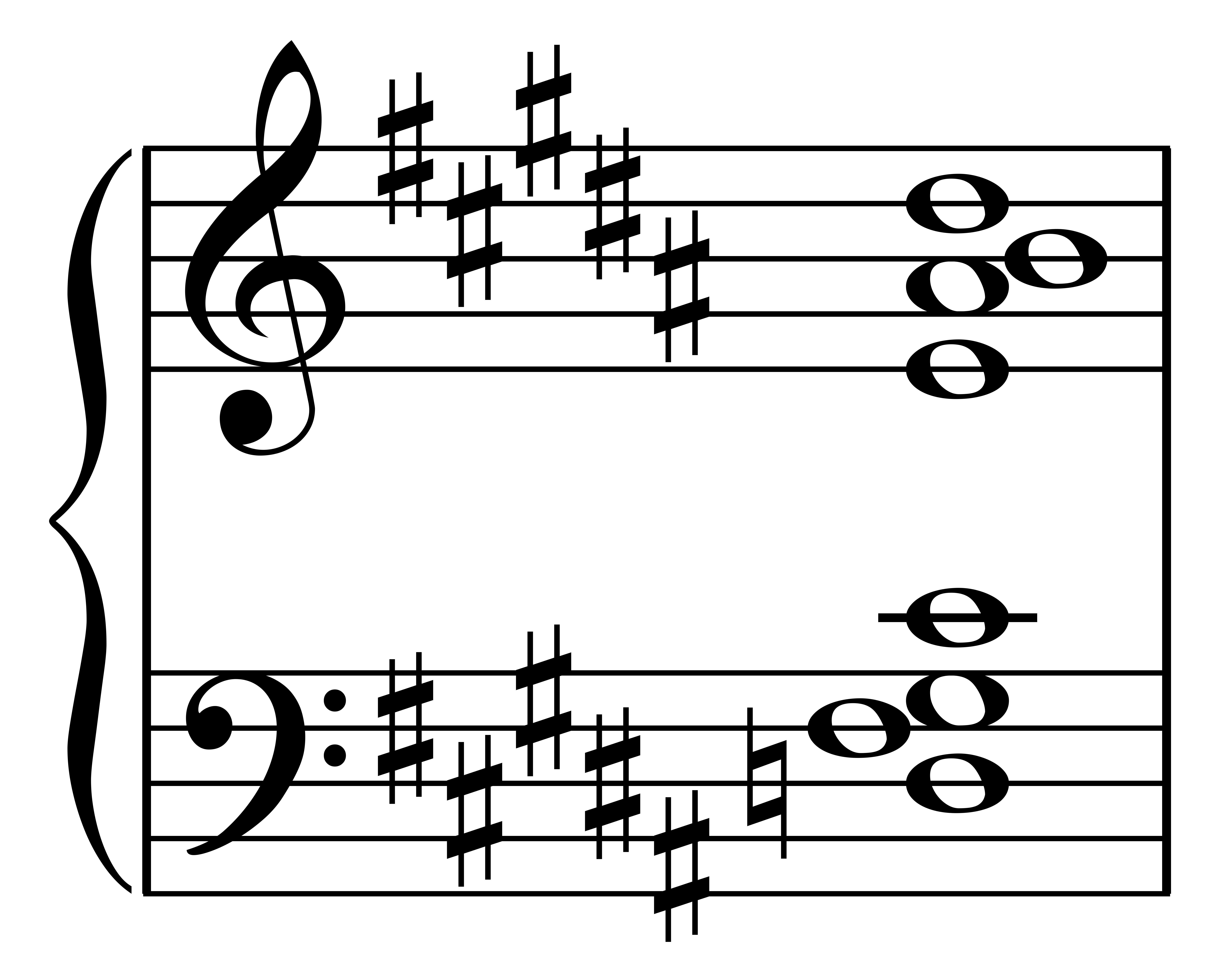 Generating chord for Michael Torke's Vanada (1984)